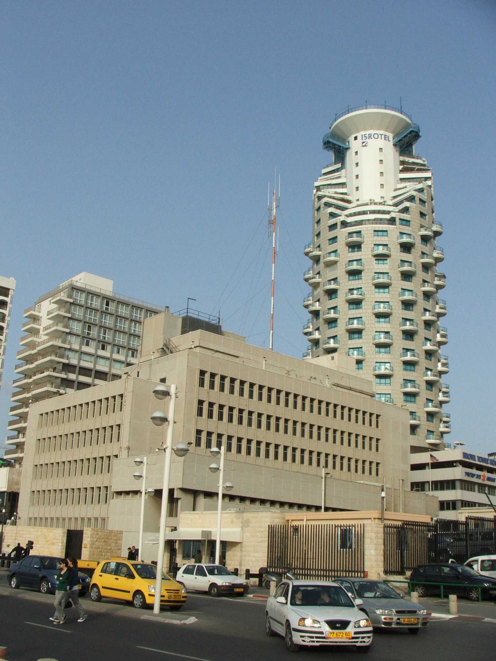 Embassy of the United States in Tel Aviv - Israel.